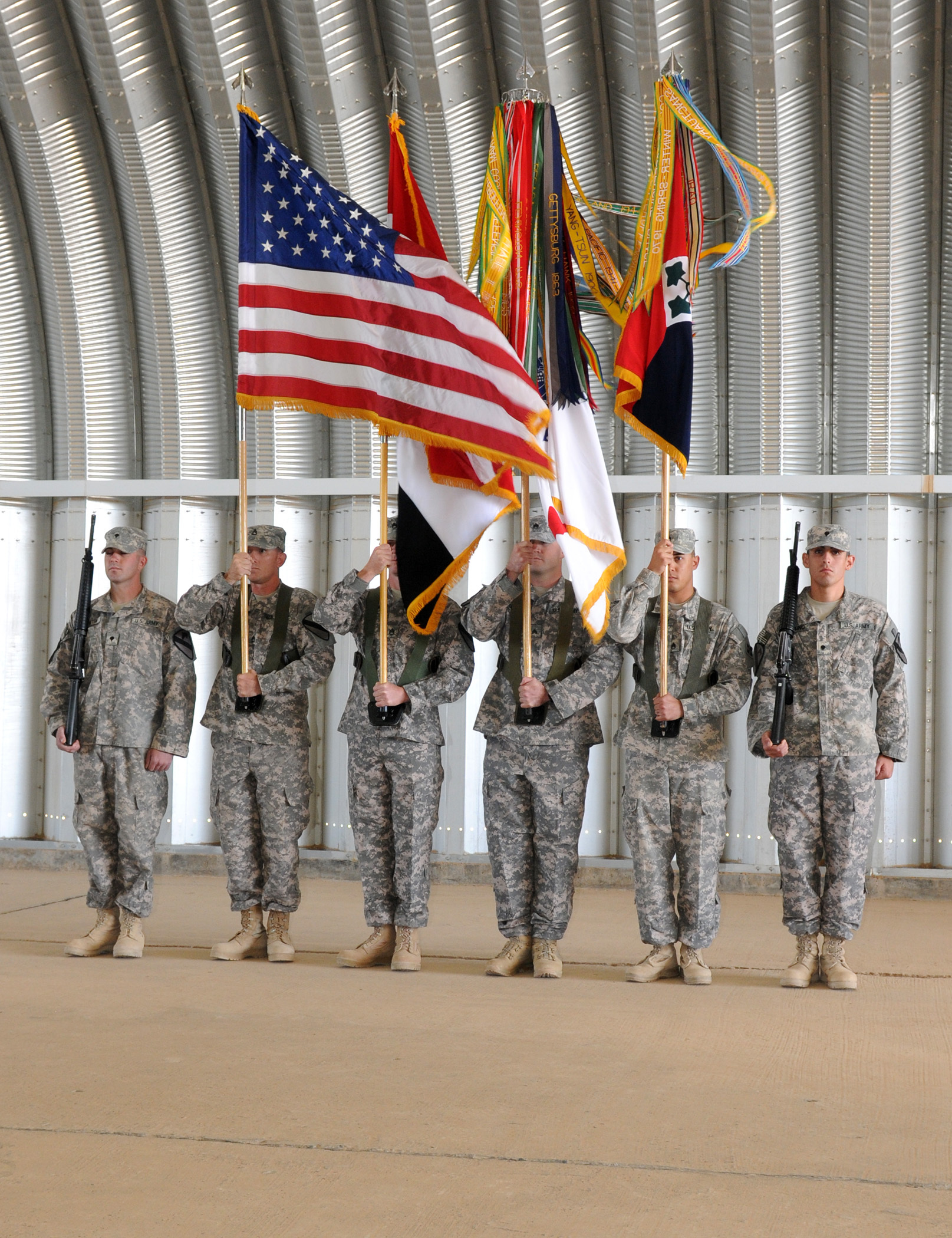 Soldiers present and post the colors of the 4th Infantry Division during the division’s color casing ceremony in a hangar, Oct. 20, 2011 at Contingency Operating Base Speicher, Iraq. The "Ivy Division" completed its yearlong Operation New Dawn deployment, spending a year commanding and controlling United States Division-North and Task Force Iron Horse. The 4th Infantry Division controlled approximately 49,000 square miles, covering the area between Baghdad and the Iraq-Turkey border.